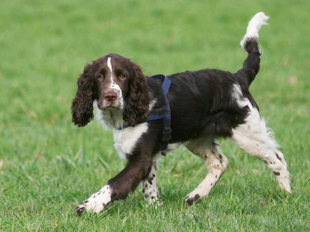 English-Springer-Spaniel, Coffee 8 Months